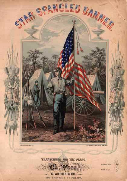 Cover of sheet music for "The Star-Spangled Banner" [words by Francis Scott Key], transcribed for piano by Ch. Voss, Philadelphia: G. Andre & Co., 1862